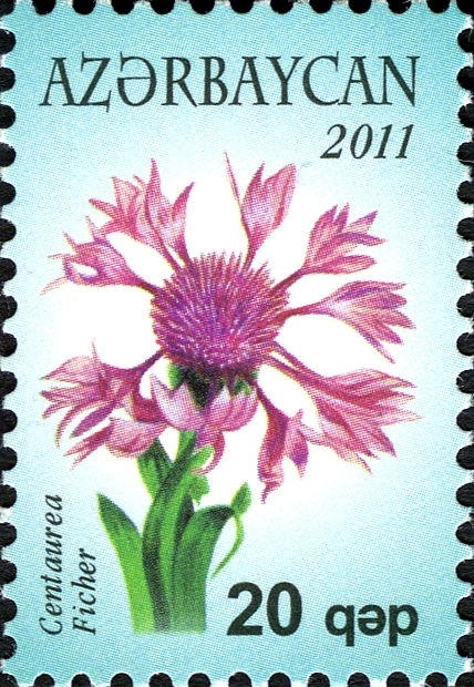 Garabagh flowers. Definitive issue.